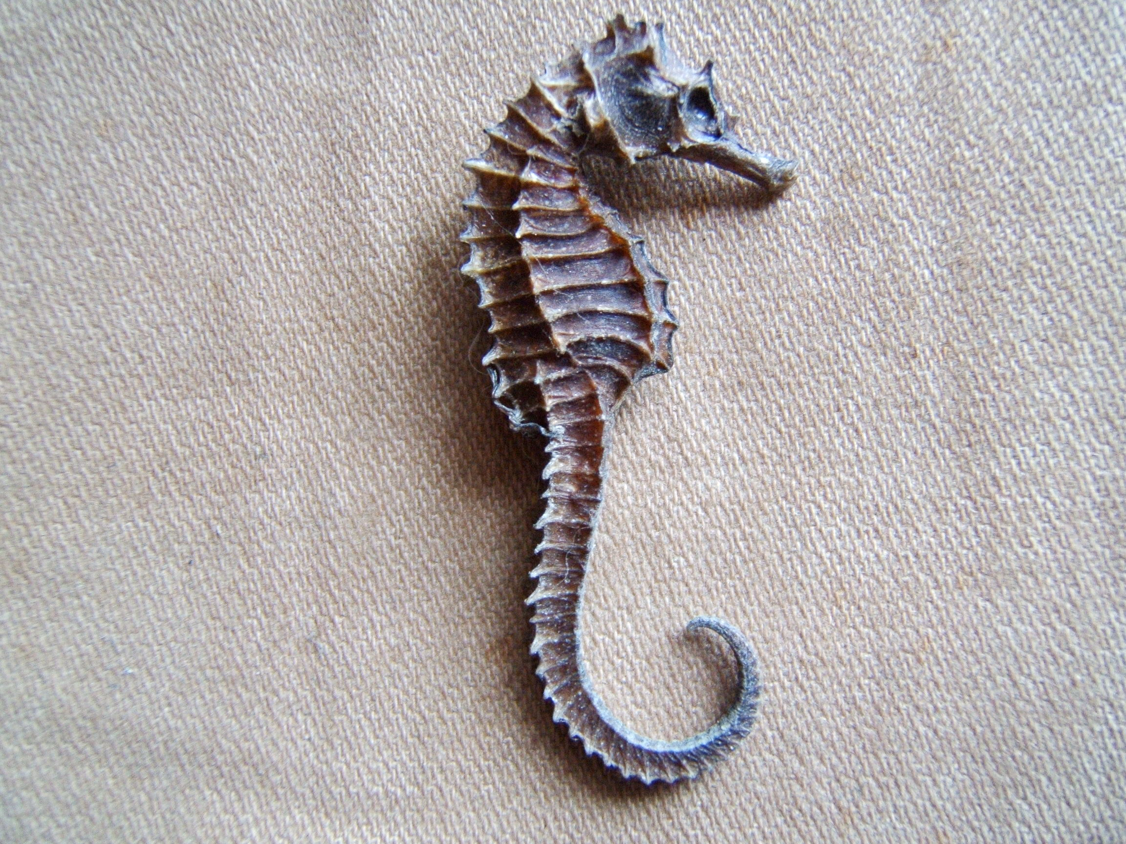 Dead seahorse